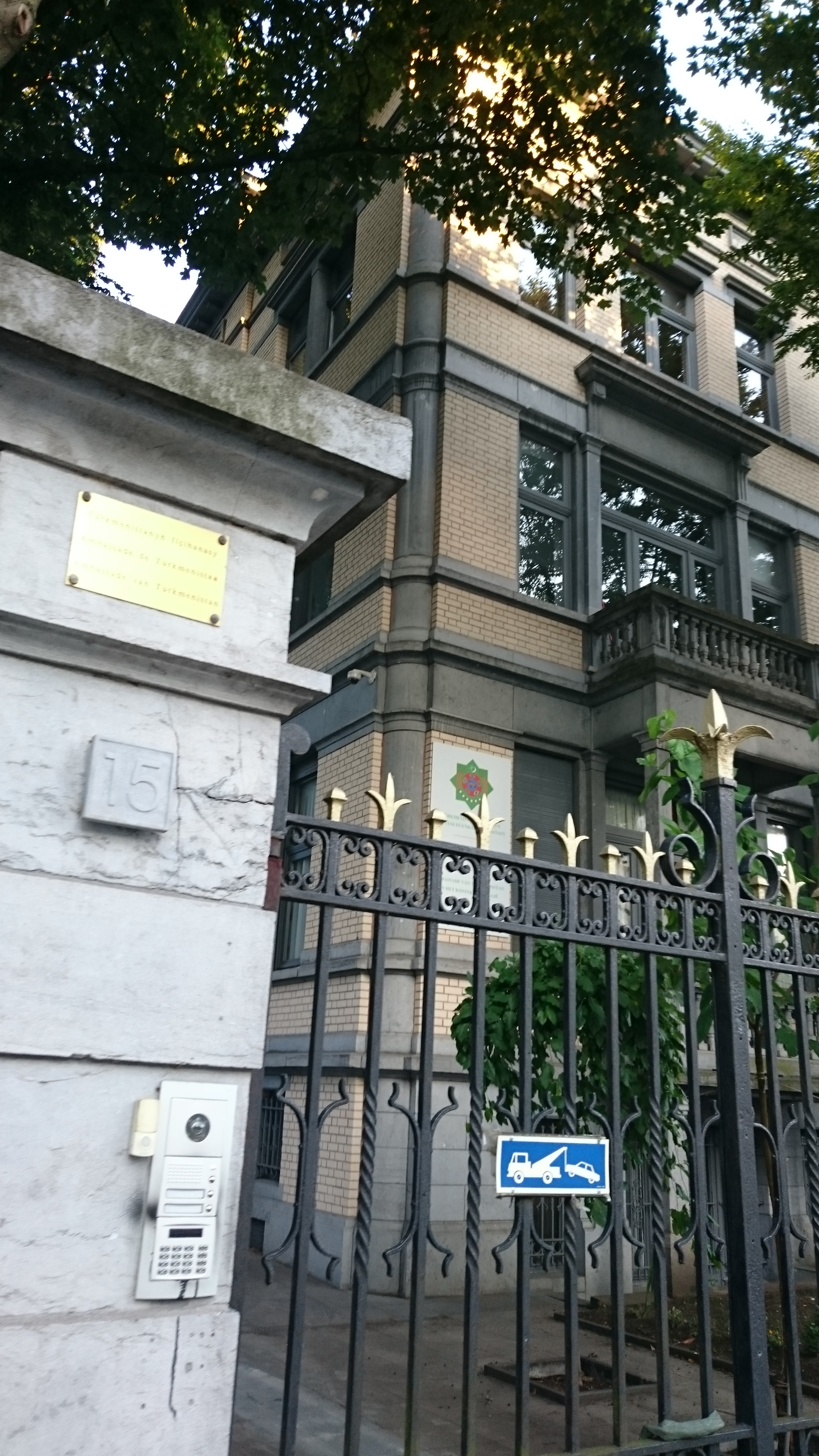 Embassy of Turkmenistan in Brussels.